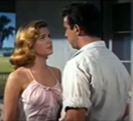 Cropped screenshot of Lee Remick from the trailer for the film The Long, Hot Summer